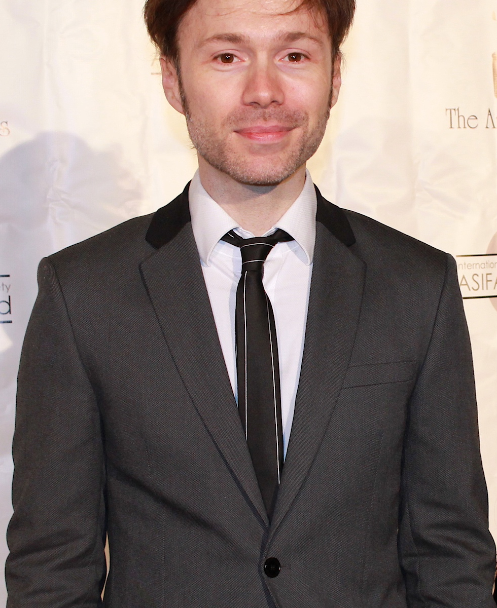 Michael Sinterniklaas at the 41st Annual Annie Awards.